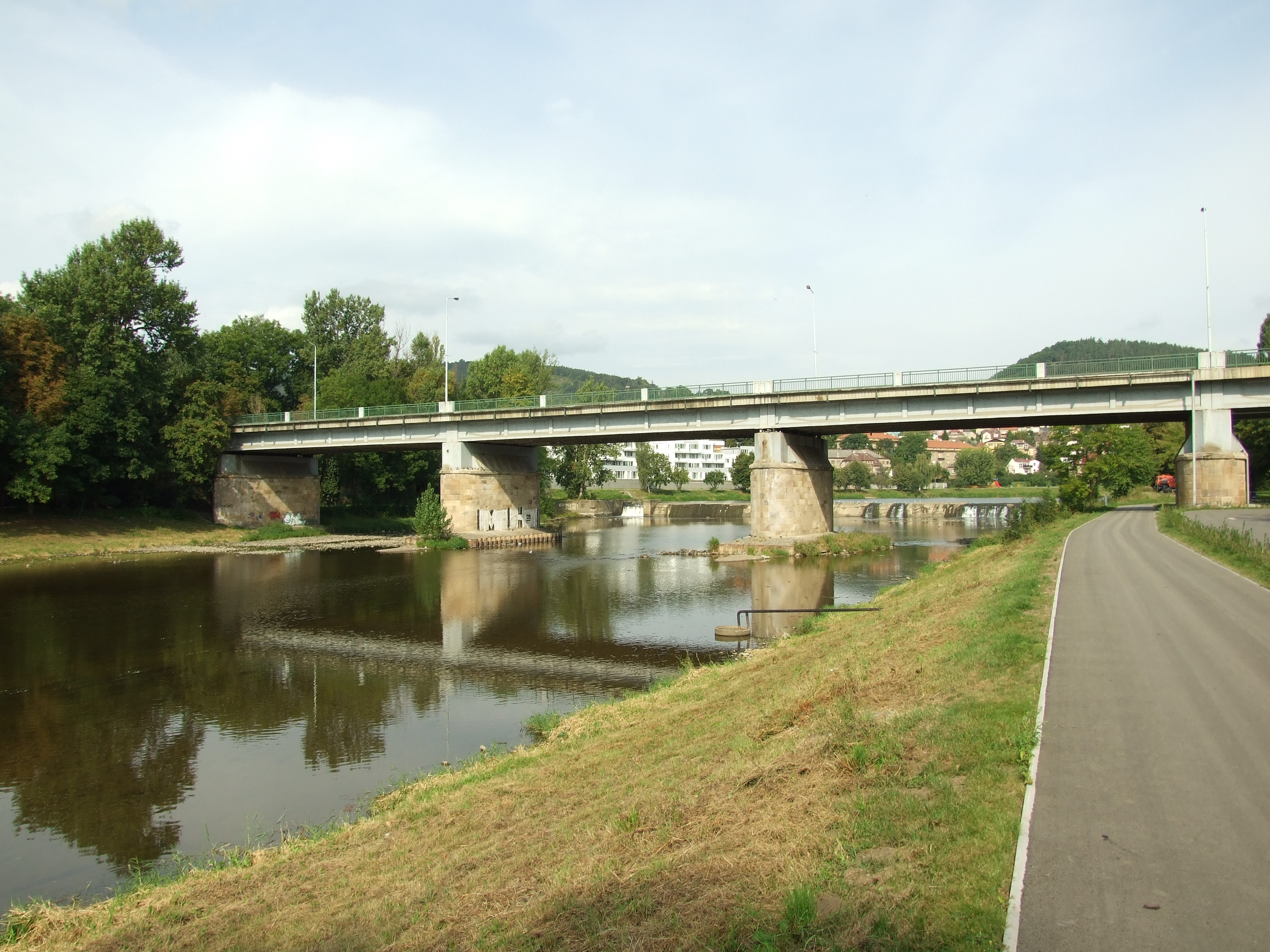 Road bridge in Beroun. Central Bohemian Region, CZ